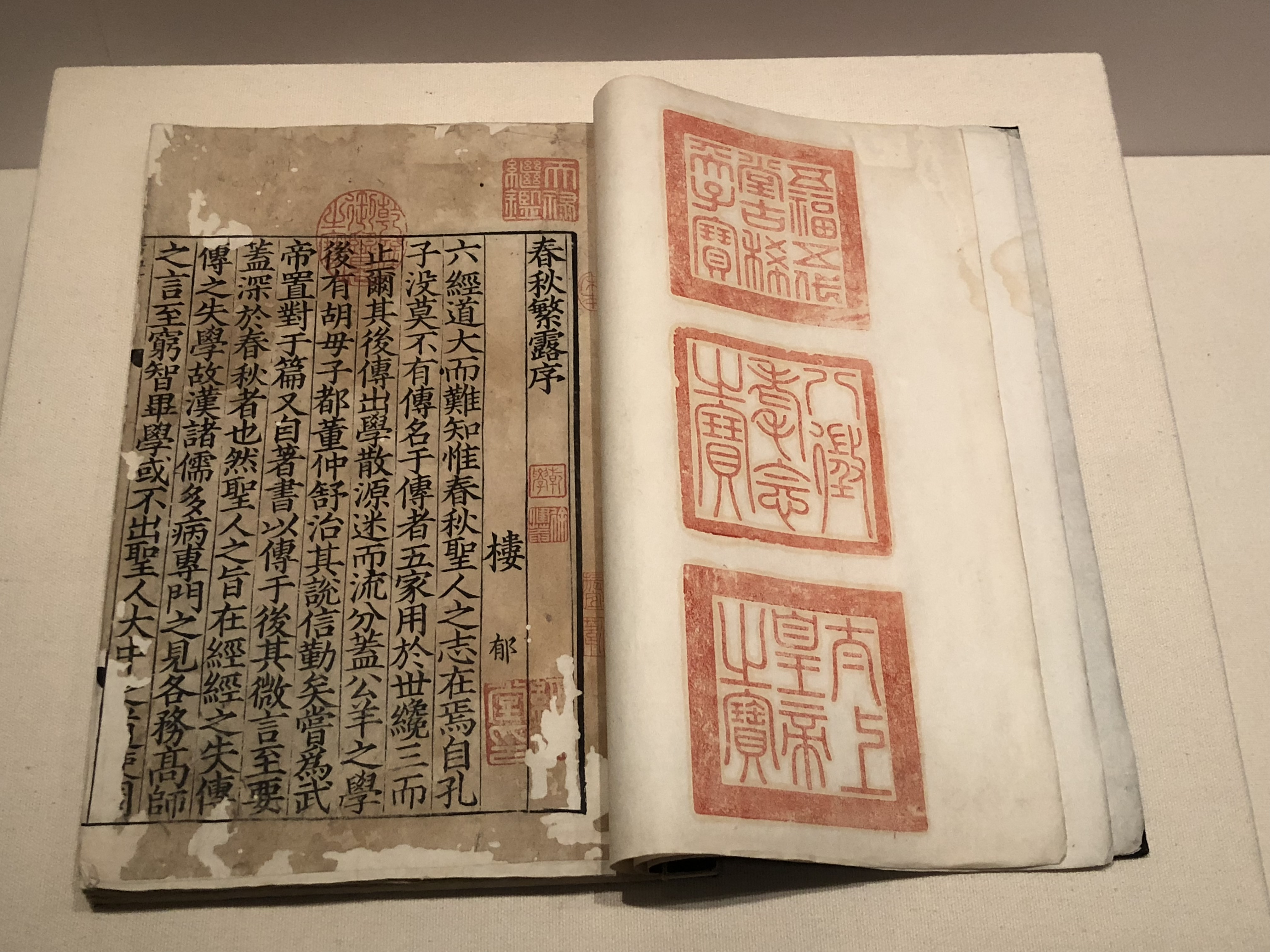 17卷82篇。国家博物馆藏